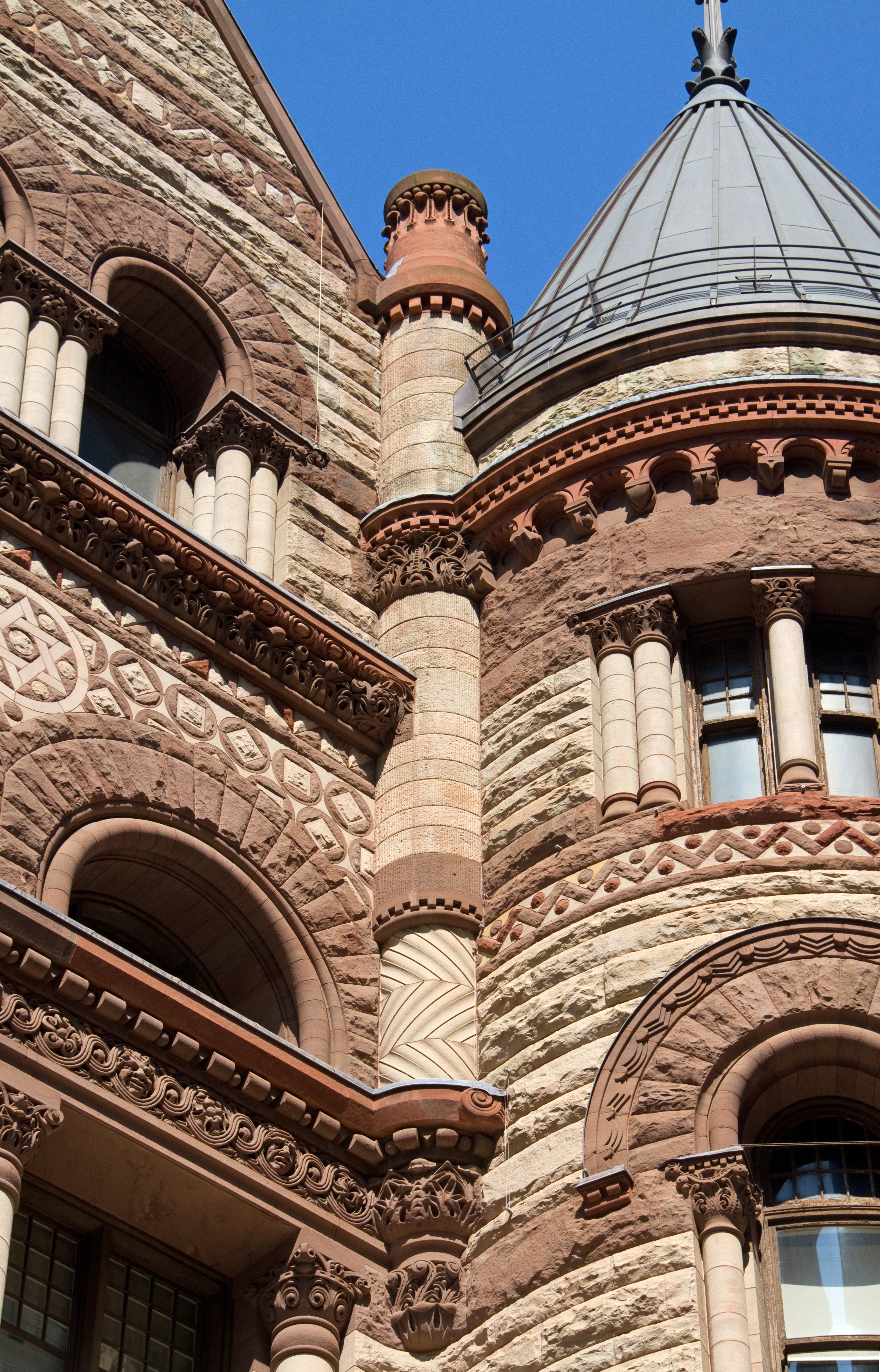 Old City Hall Toronto 8